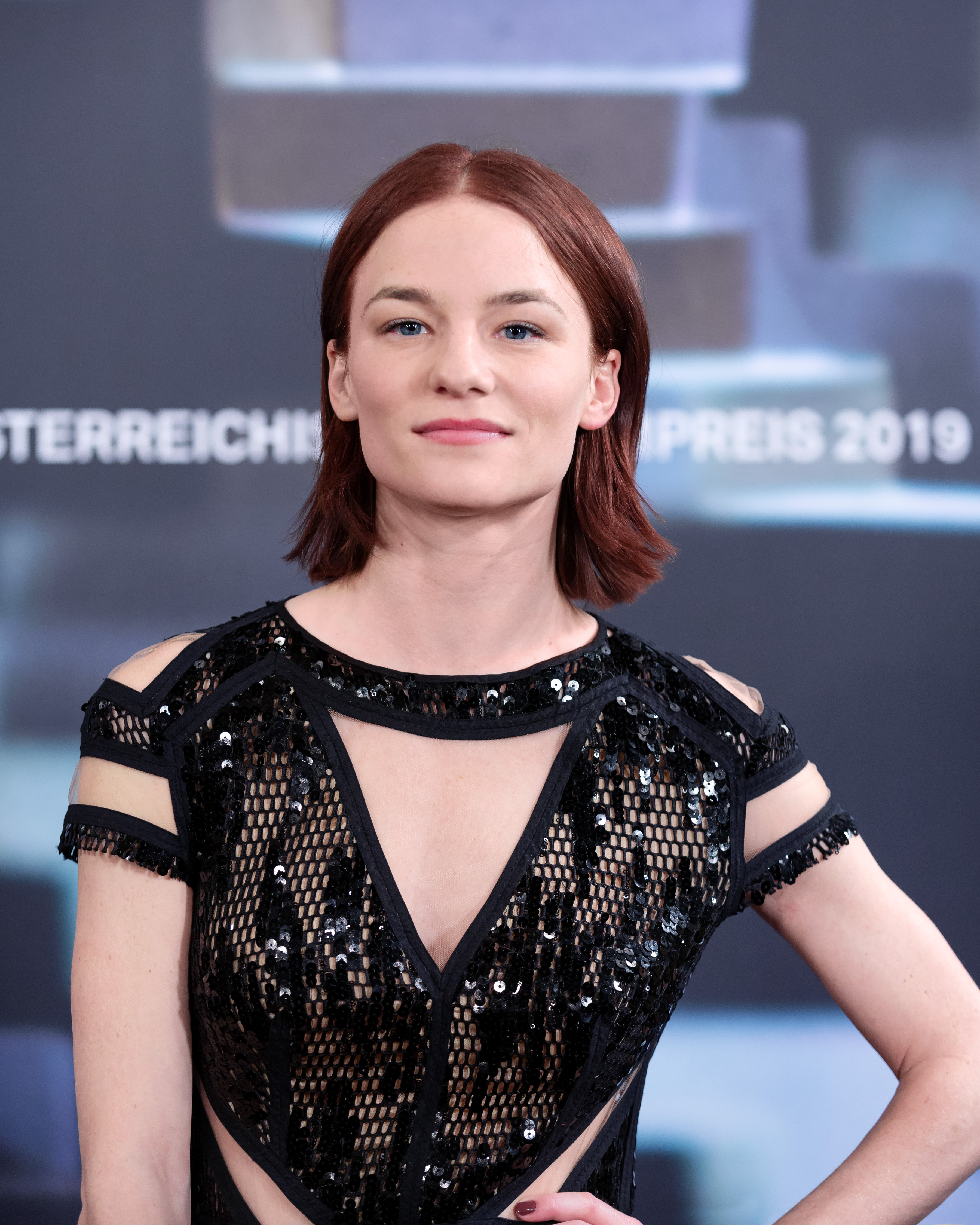 Valerie Pachner ("The Ground beneath my Feet"),, photo call at the Austrian Film Awards 2019 (Rathaus, Vienna,Austria).